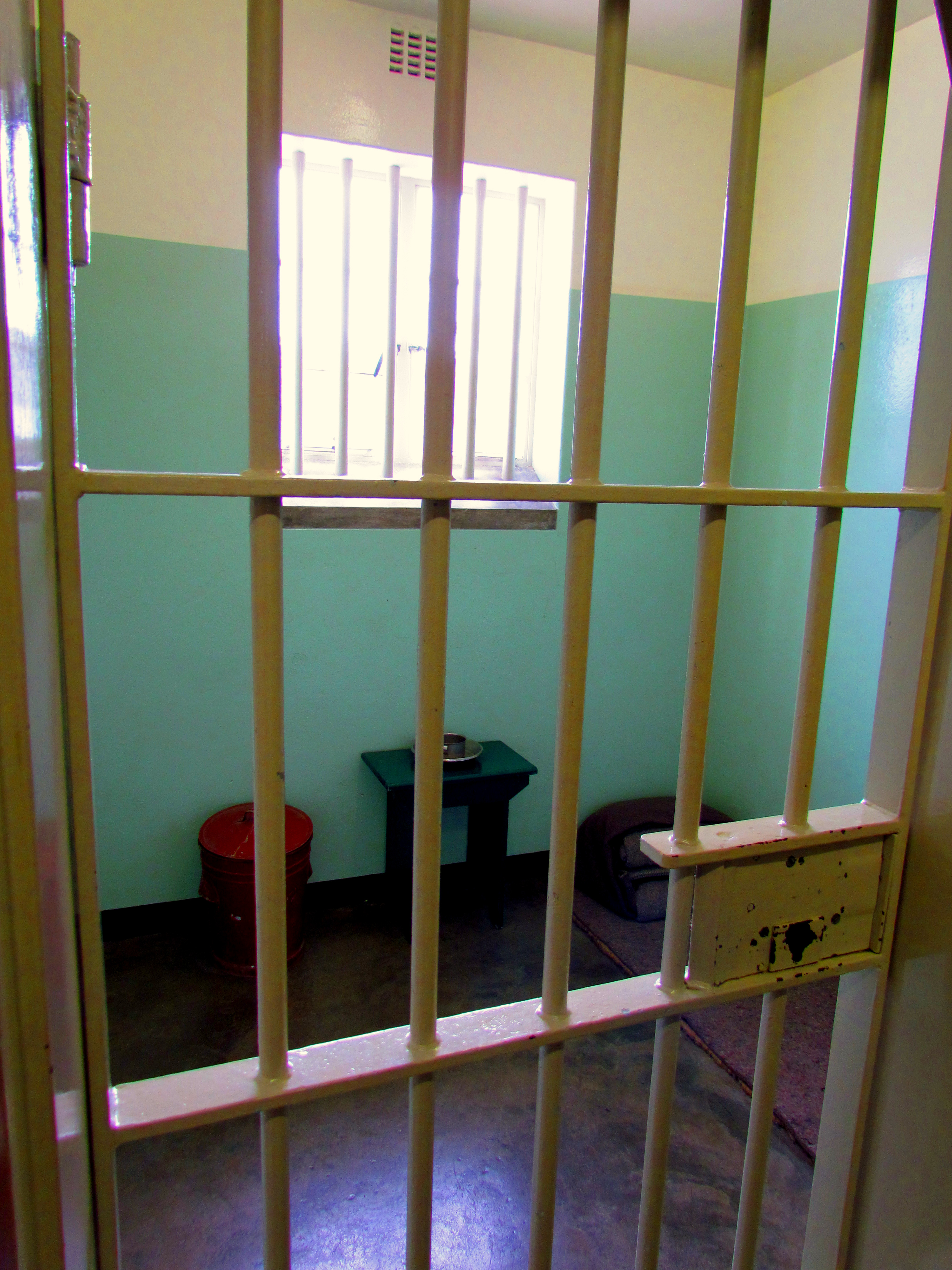 Nelson Mandela was imprisoned on Robben Island between 1964 and 1982.